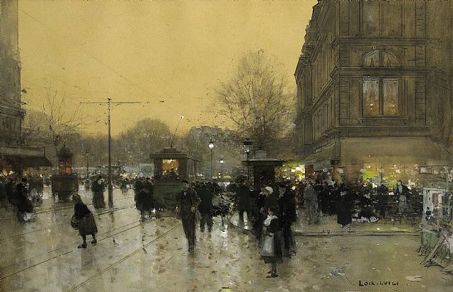 "Une place à Paris" by French painter and engraver Luigi Loir (1845-1916). Gouache on paper.